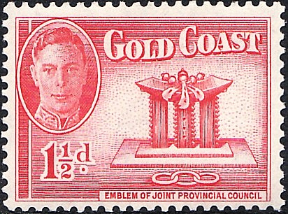 The illustration on the stamp shows the Golden Stool of the Joint Provincial Council. This stool is an artistic creation from the 1930s and represents a symbiosis of the Golden Stool of Ashanti and the Golden Stool of the Ga people what shall be a symbol of the inner unity between the peoples of the former Gold Coast Colony.